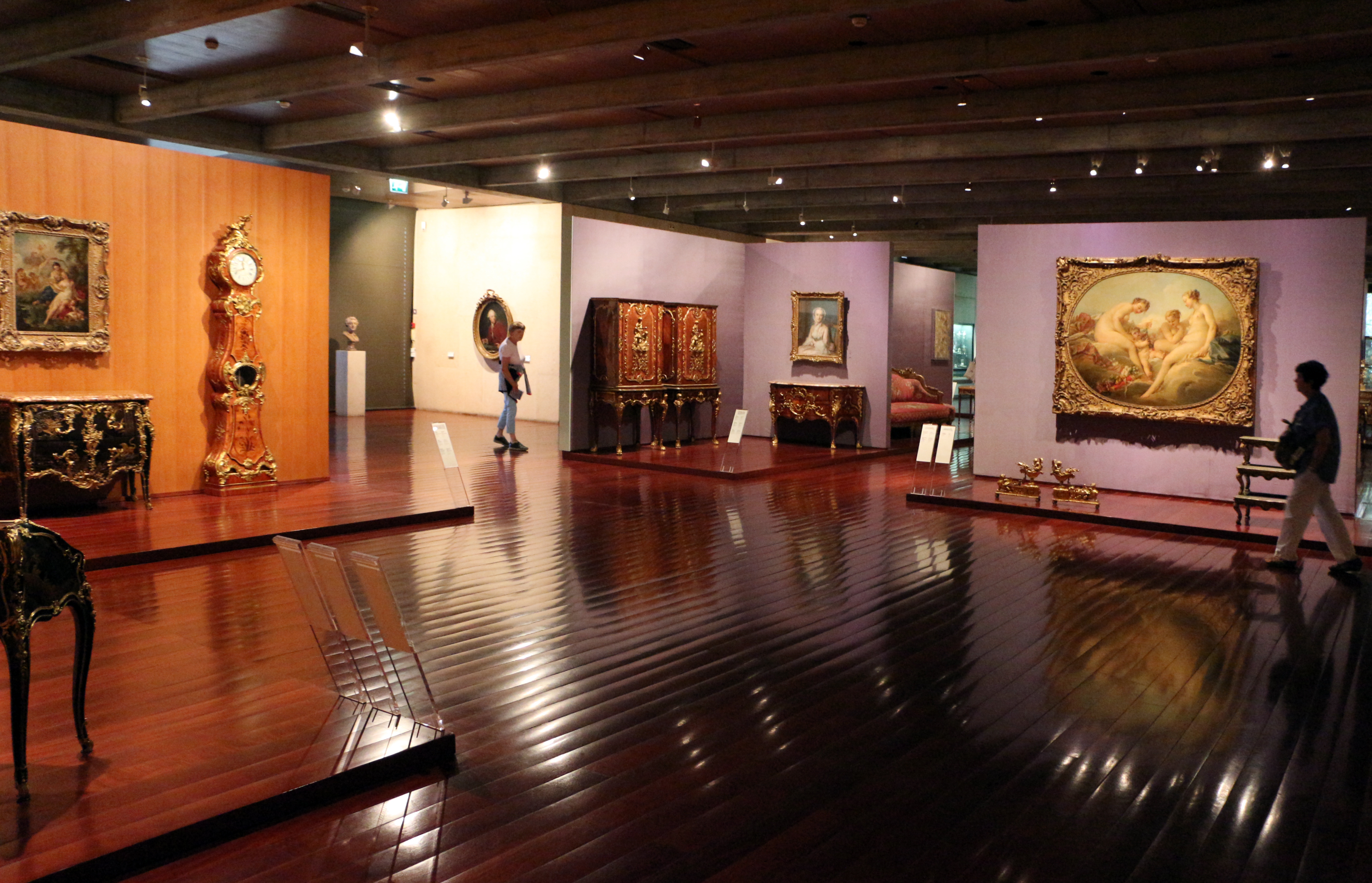 Calouste Gulbenkian Museum